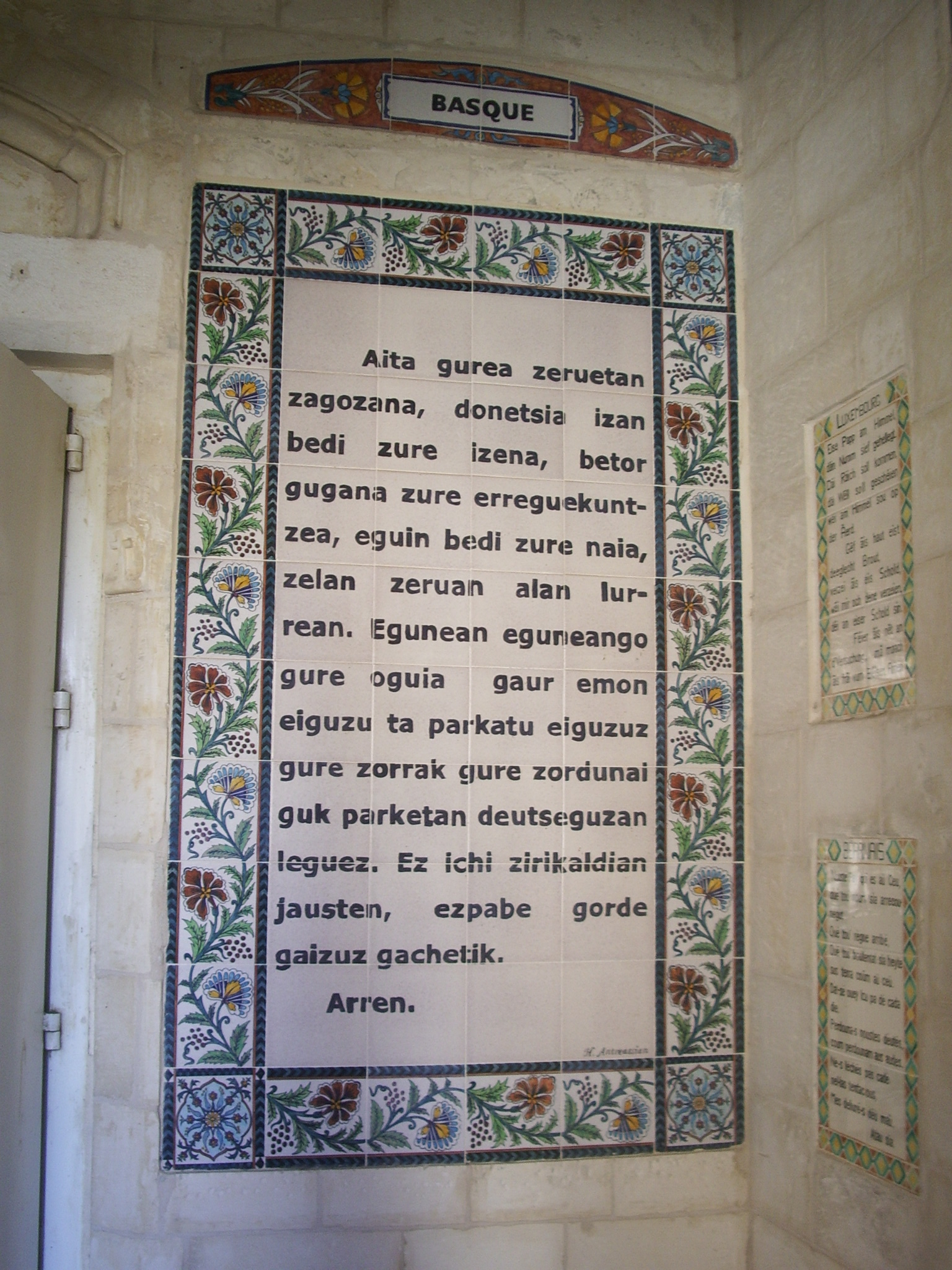 Lord's Prayer in Basque, Pater Noster monastery, Jerusalem